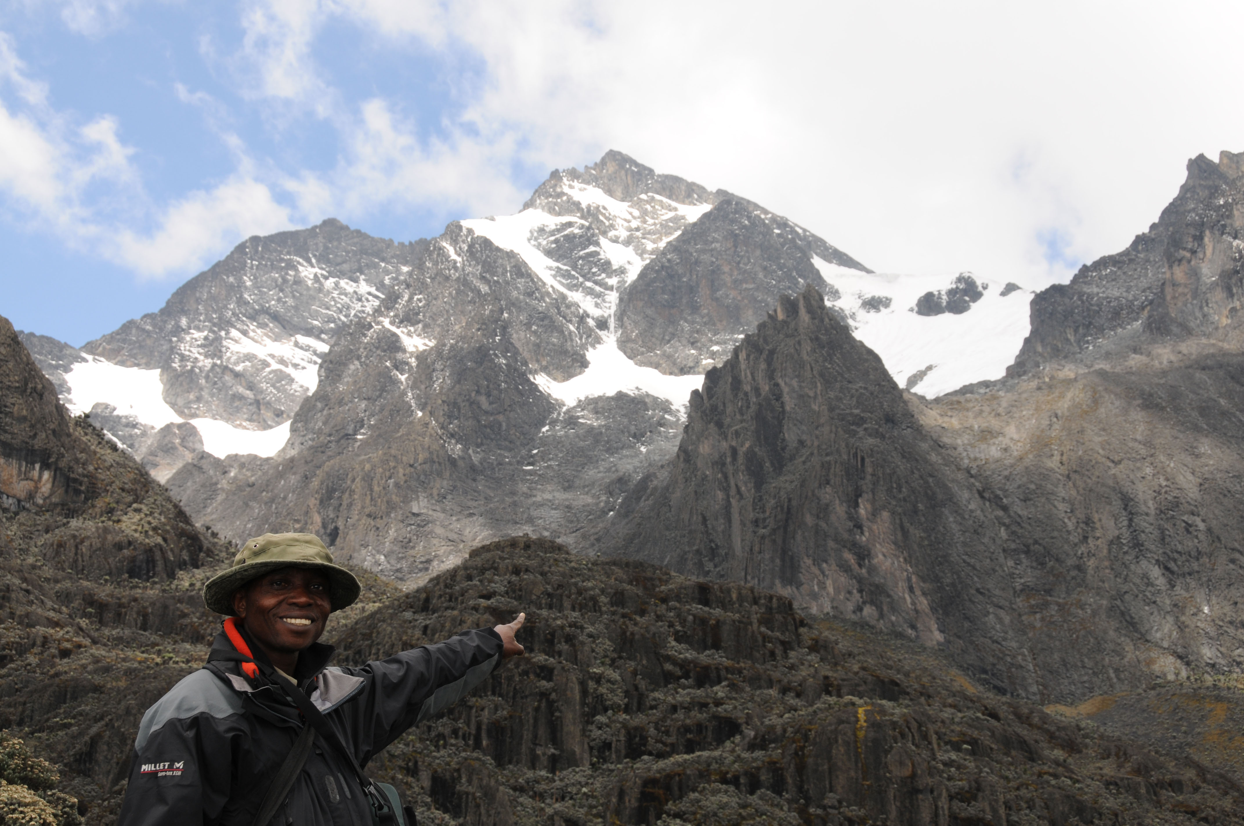 The Rwenzori Mountains — in Virunga National Park, the eastern Democratic Republic of the Congo.